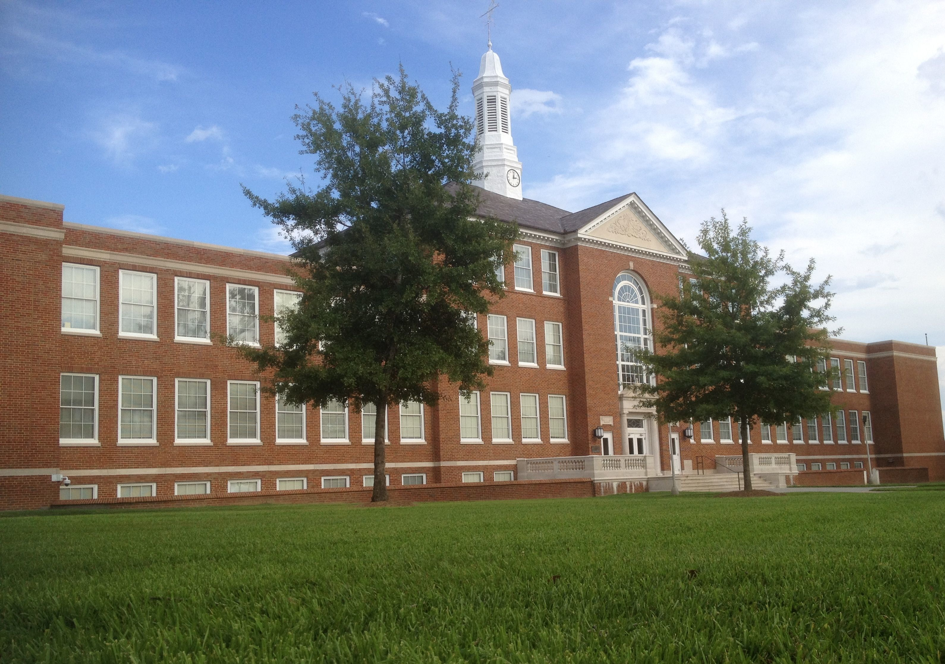 Photo of Keeny Hall on Louisiana Tech campus